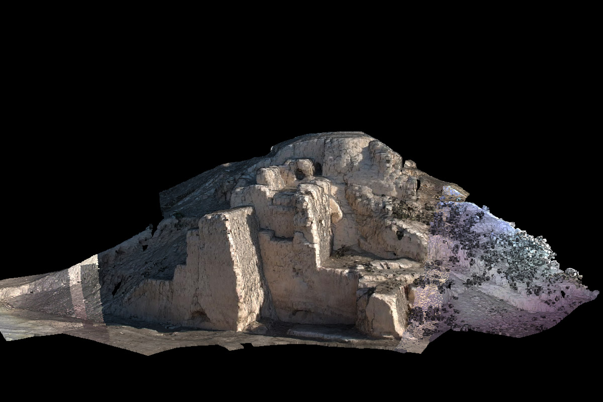 Photo-textured 3D laser scan image of the town walls of the city of Gyaur Kala. An 8 km circuit, constructed in the 3rd century BCE, and repaired and substantially enlarged up to the 7th century CE. This excavated section showed archaeologists that large erosion deposits, derived from the erosion of latest, upper-most, walls, had exceptionally well-preserved the majority of the wall sequence. The elevation shows numerous stages of construction that occurred over the centuries.